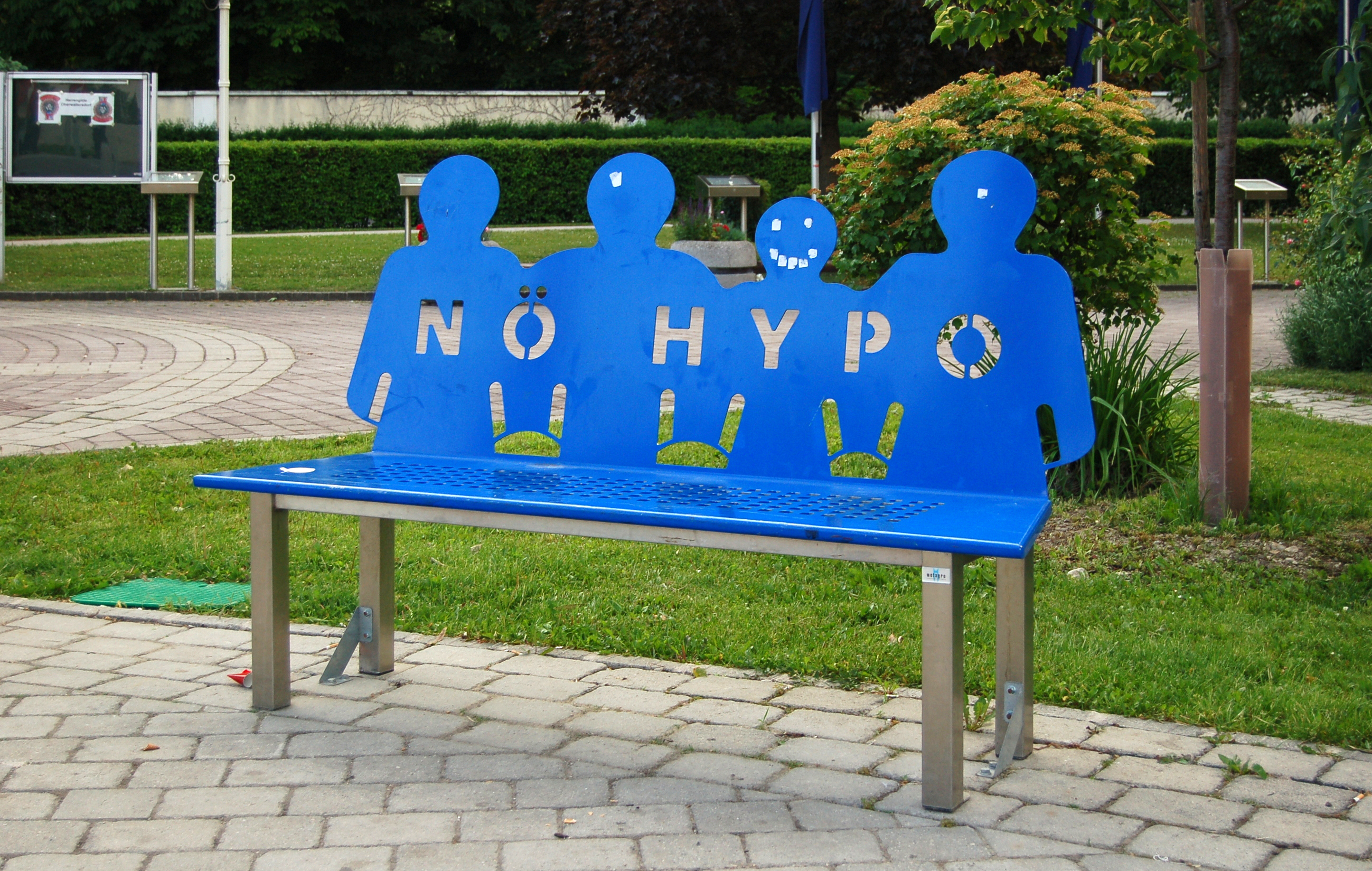 An example of public private partnership, a bench sponsored by the bank Nö Hypo in Oberwaltersdorf, Lower Austria.